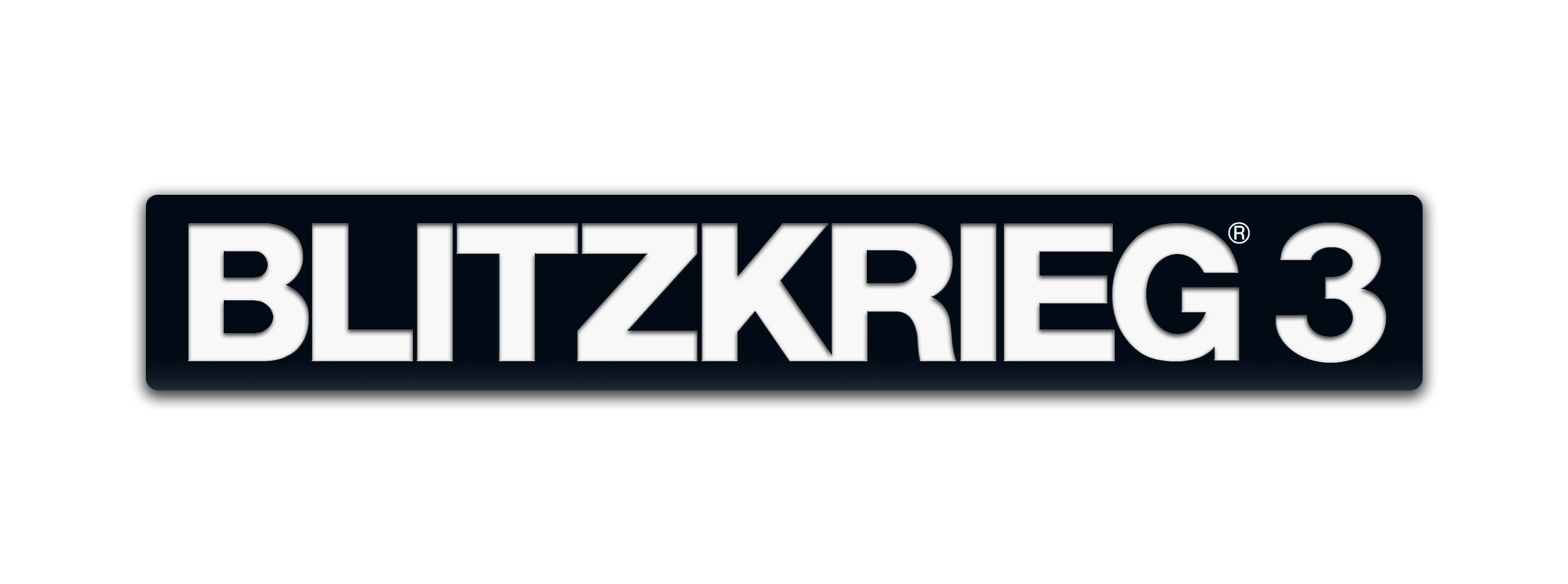 Logo of video game Blitzkrieg 3 (English version)